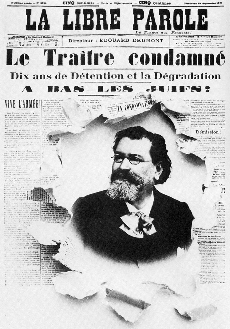 Edouard Drumont and the antisemitic newspaper he founded, La Libre Parole. Headlines concerning the Dreyfus Affair: "The Traitor Convicted", "Down with the Jews!"